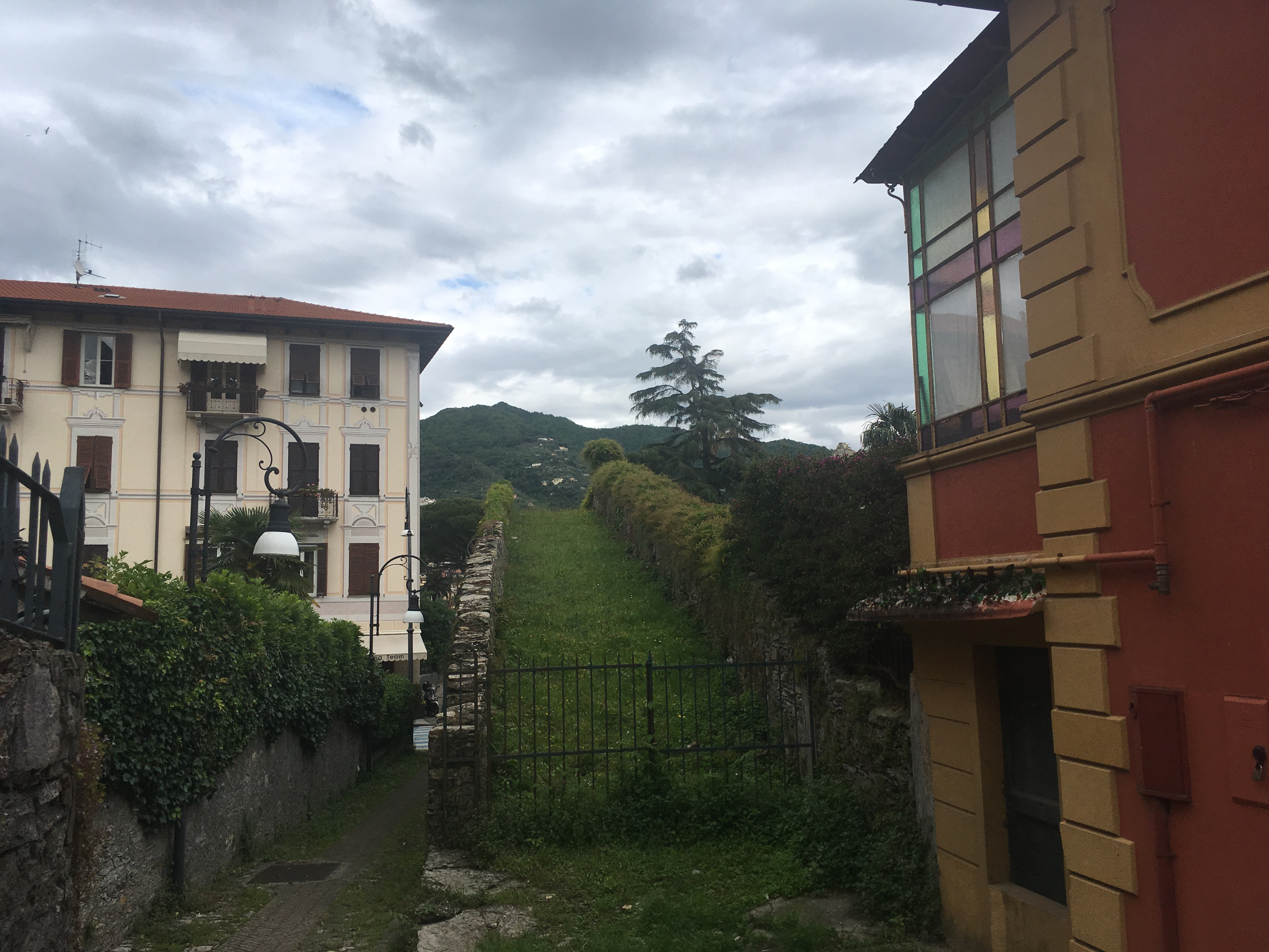 Modern view of Hannibal's Bridge in Rapallo Italy